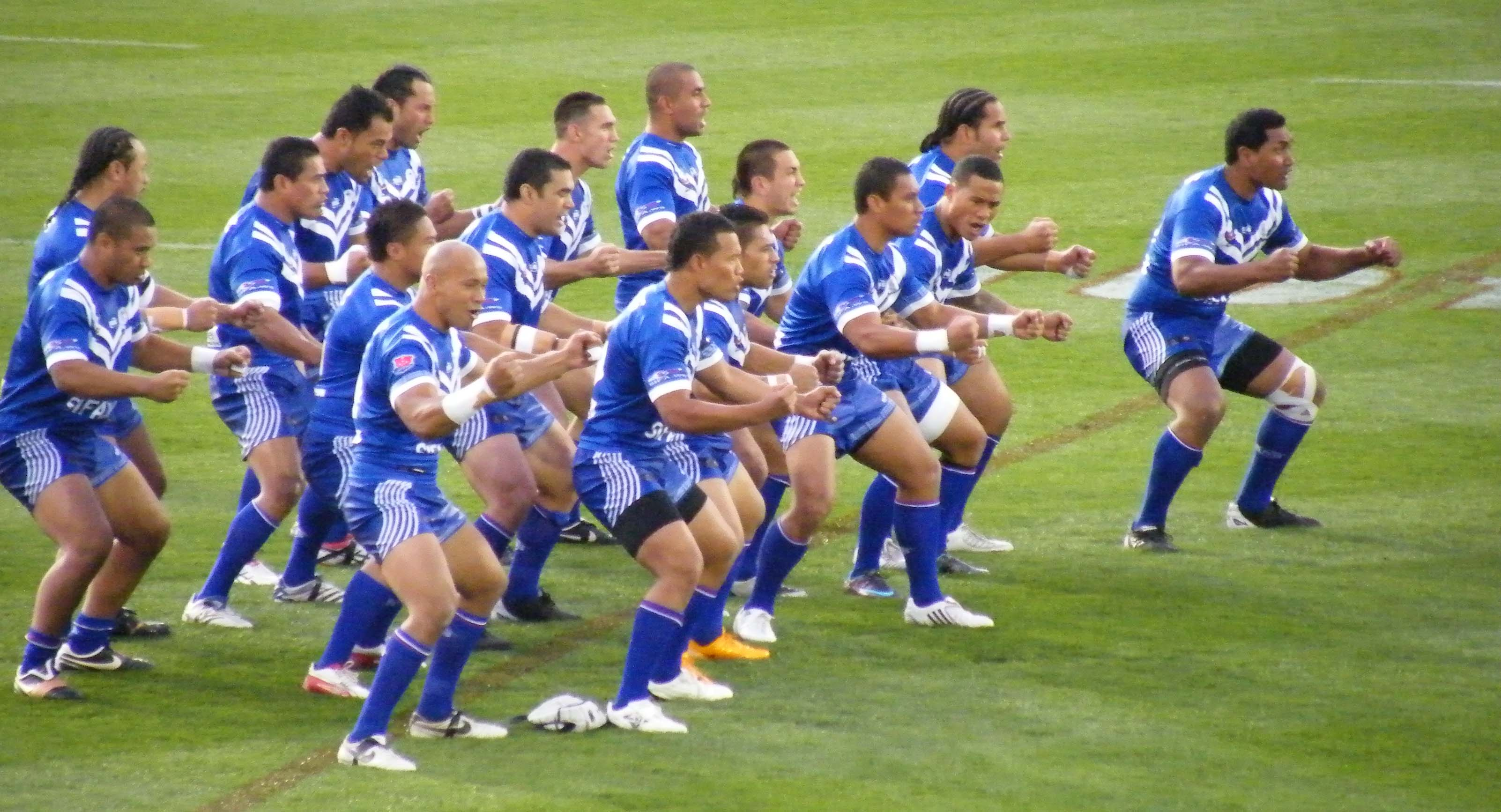 RLWC Samoa v Tonga, Penrith 2008.